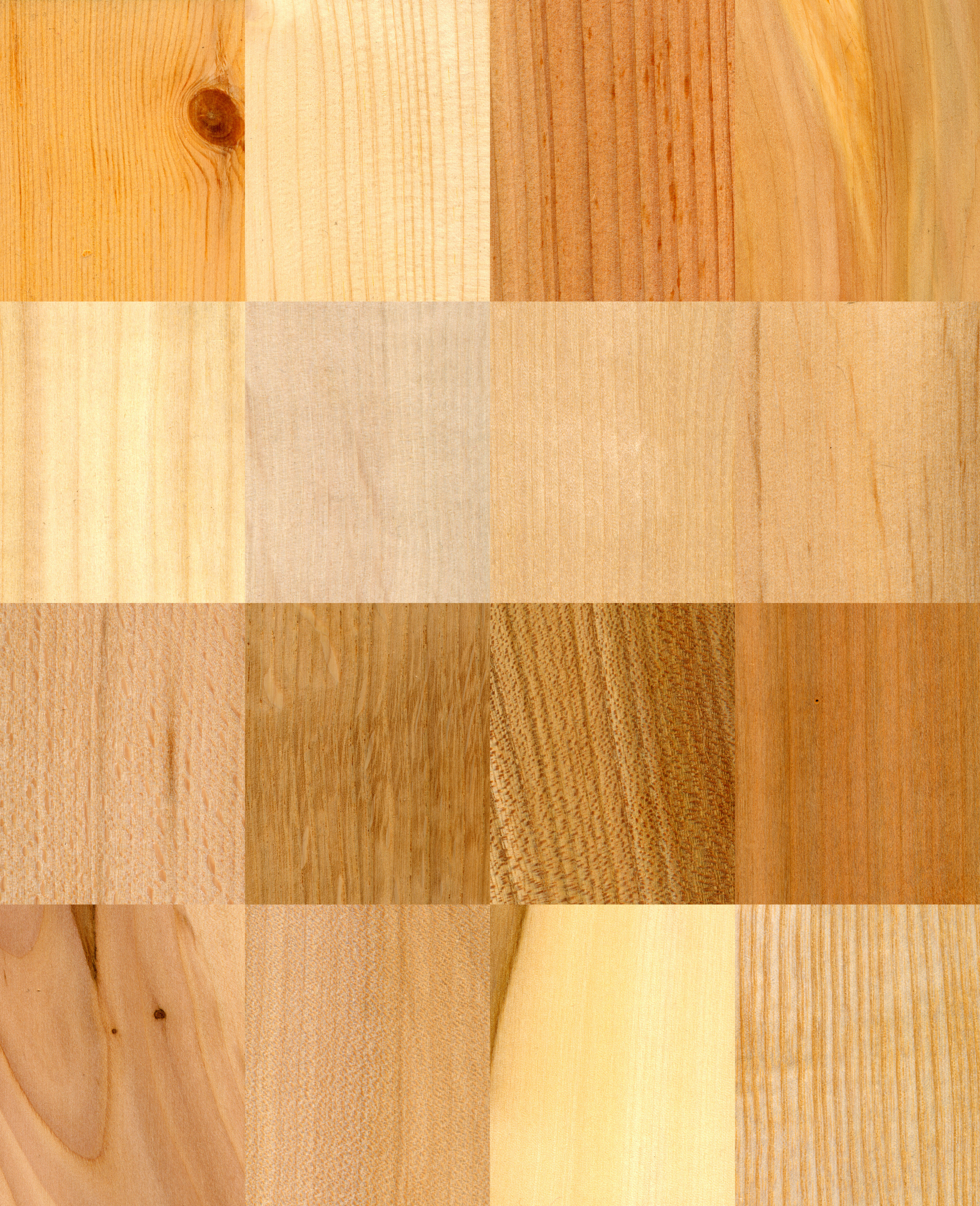 Wood samples Pinus sylvestris (Scots Pine) Picea abies (Norway Spruce) Larix decidua (European Larch) Juniperus communis (Common Juniper) Populus tremula (Aspen) Carpinus betulus (Hornbeam) Betula pubescens (Silver Birch) Alnus glutinosa (Alder) Fagus sylvatica (Beech) Quercus robur (Pedunculate Oak) Ulmus glabra (Wych Elm) Prunus avium (Wild Cherry) Pyrus communis (Pear) Acer platanoides (Norway Maple) Tilia cordata (Small-leaved Lime) Fraxinus excelsior (Ash)